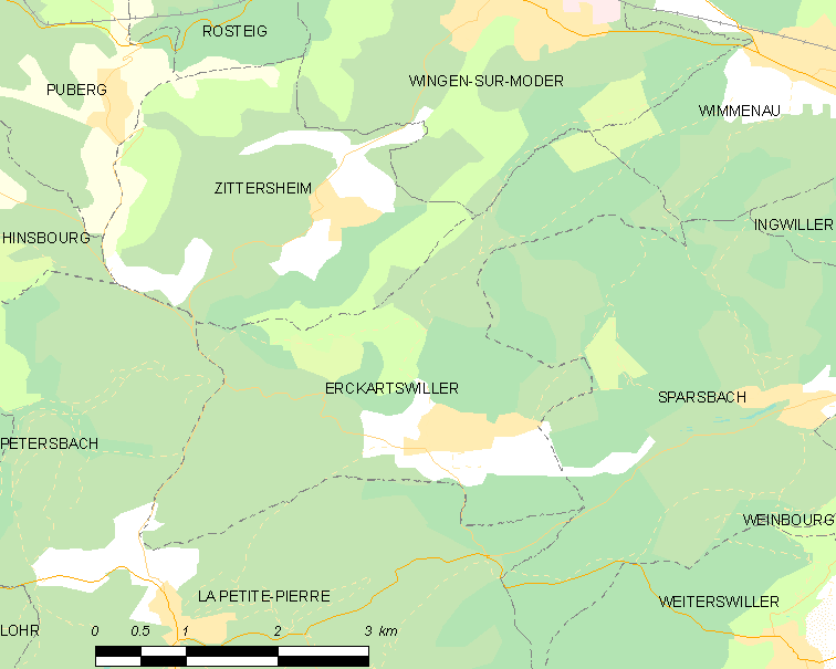 Map of French municipality